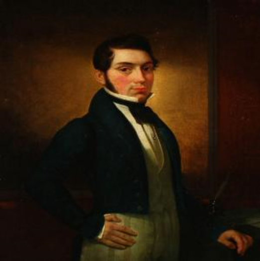 Christian August Broberg, Danish businessman